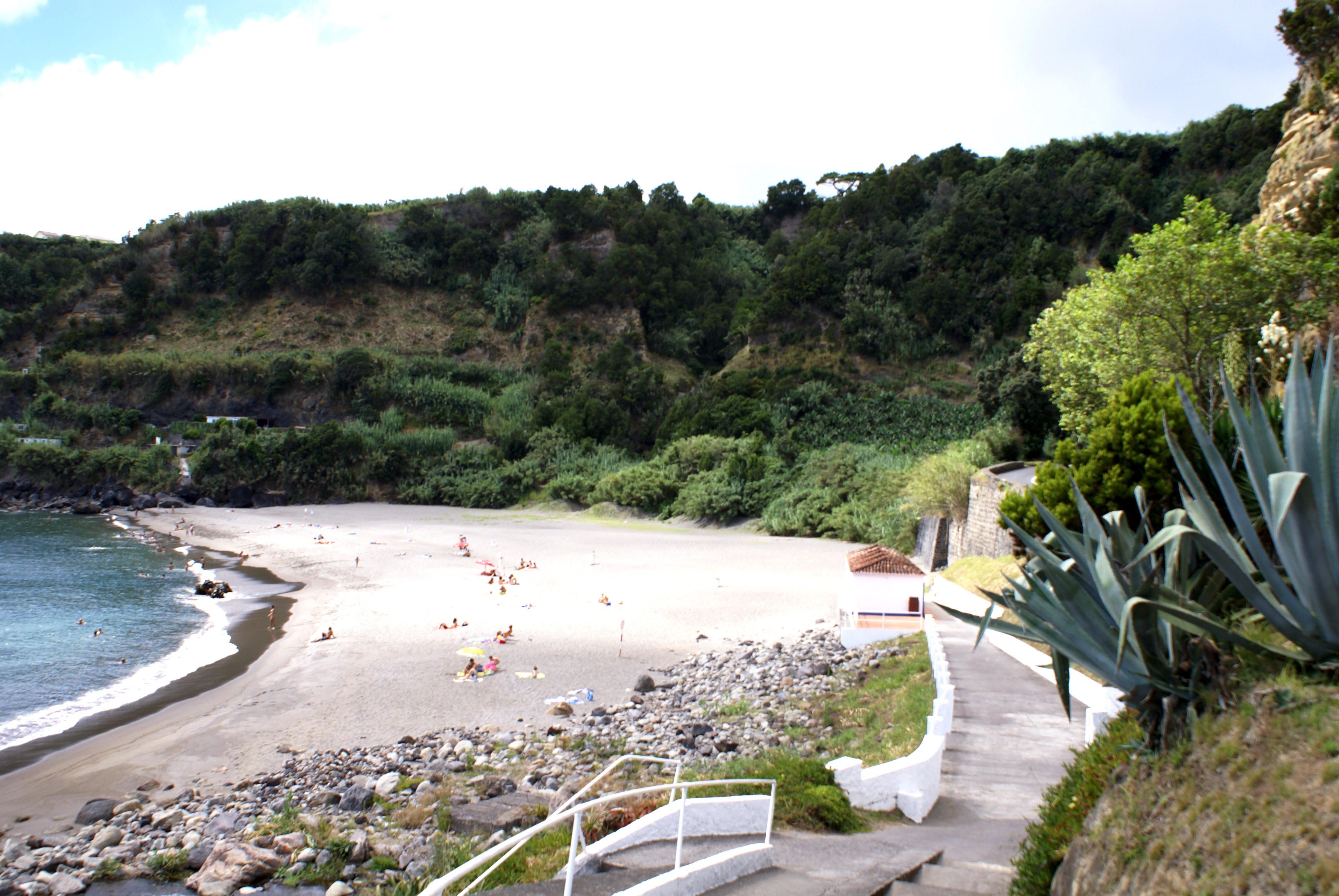 A view of the smaller beach, or Prainha de Água de Alto, in the civil parish of Água de Alto, municipality of Vila Franca do Campo (Azores), Portugal